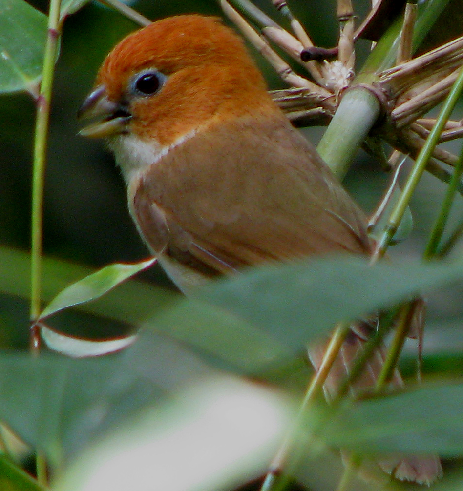 Greater Rufous-headed Parrotbill, Eaglenest Wildlife Sanctuary